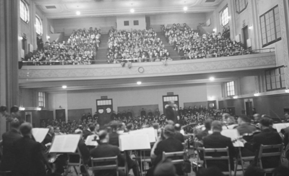 The chef Wilfrid Pelletier conducted an orchestra in the auditorium located at 3700 Plateau, Calixa-Lavallée Avenue in Montreal. This concert is presented as part of the "Children's Symphony Concerts".